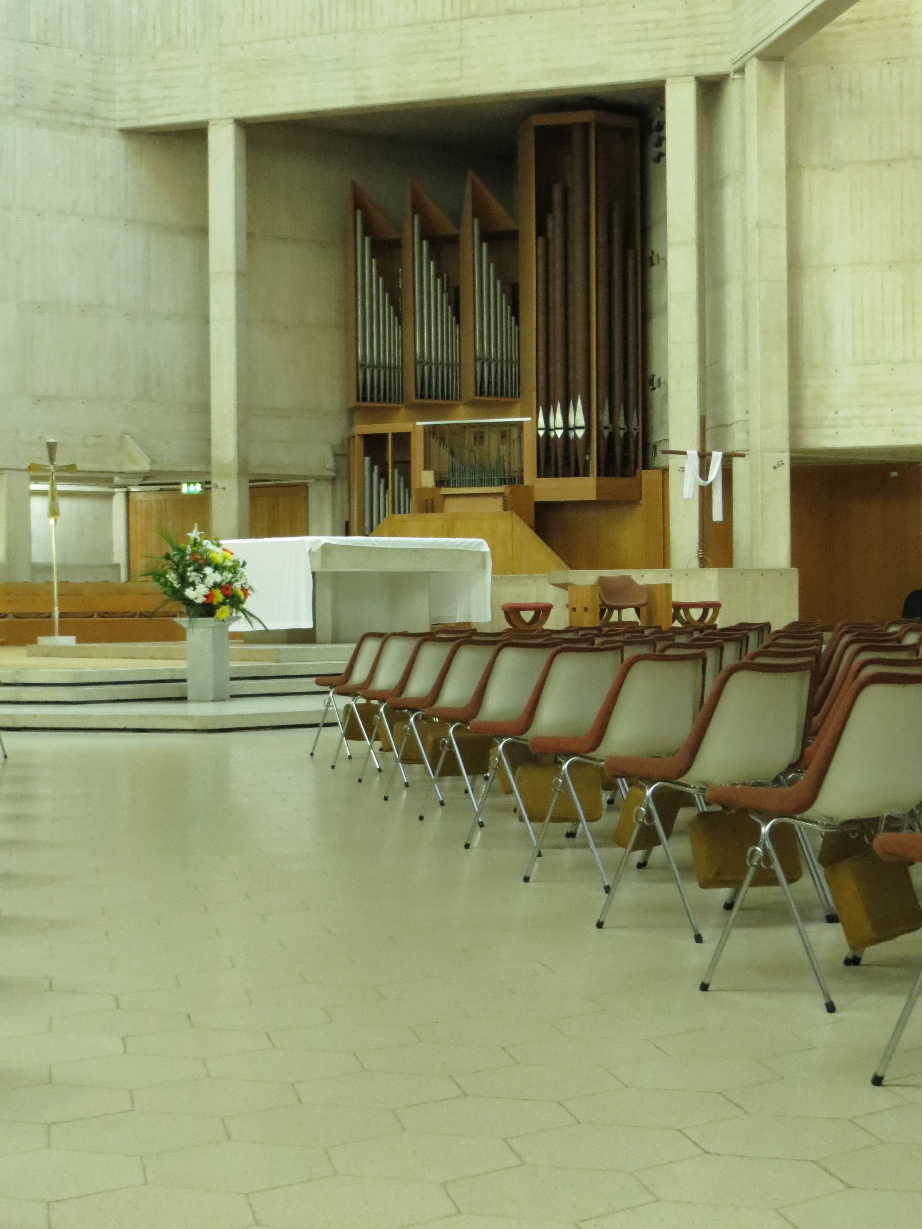 Clifton Cathedral, Clifton Park, Bristol BS8 3BX, UK